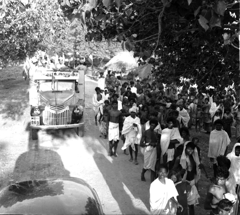 Indian pro-merger activists driving through an unspecified rural area of French India in March 1954 to gather support for merger with India. All four territories of French India -- Pondicherry, Karaikal, Yanam and Mahé -- experienced such activities, and in the last three territories the French authorities had either nearly or completely lost control to invading "liberation committees" by the summer. De facto merger will take place 1 November 1954.